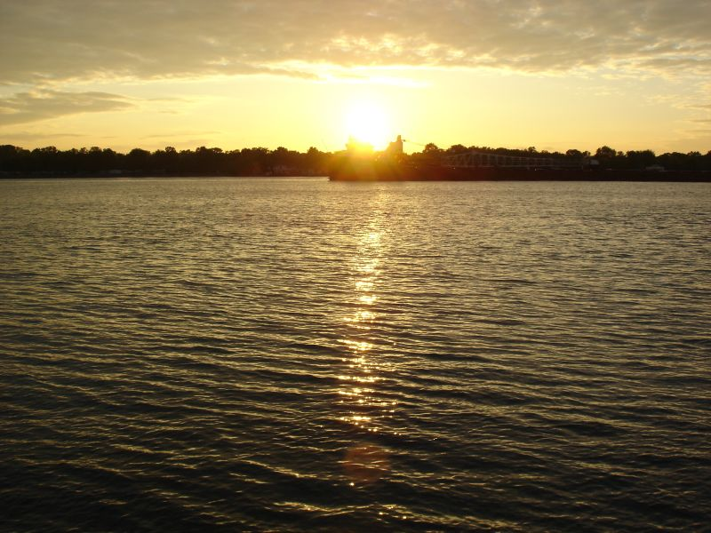 Photo of St. Clair River taken from Port Lambton park by Ben Hazzard.